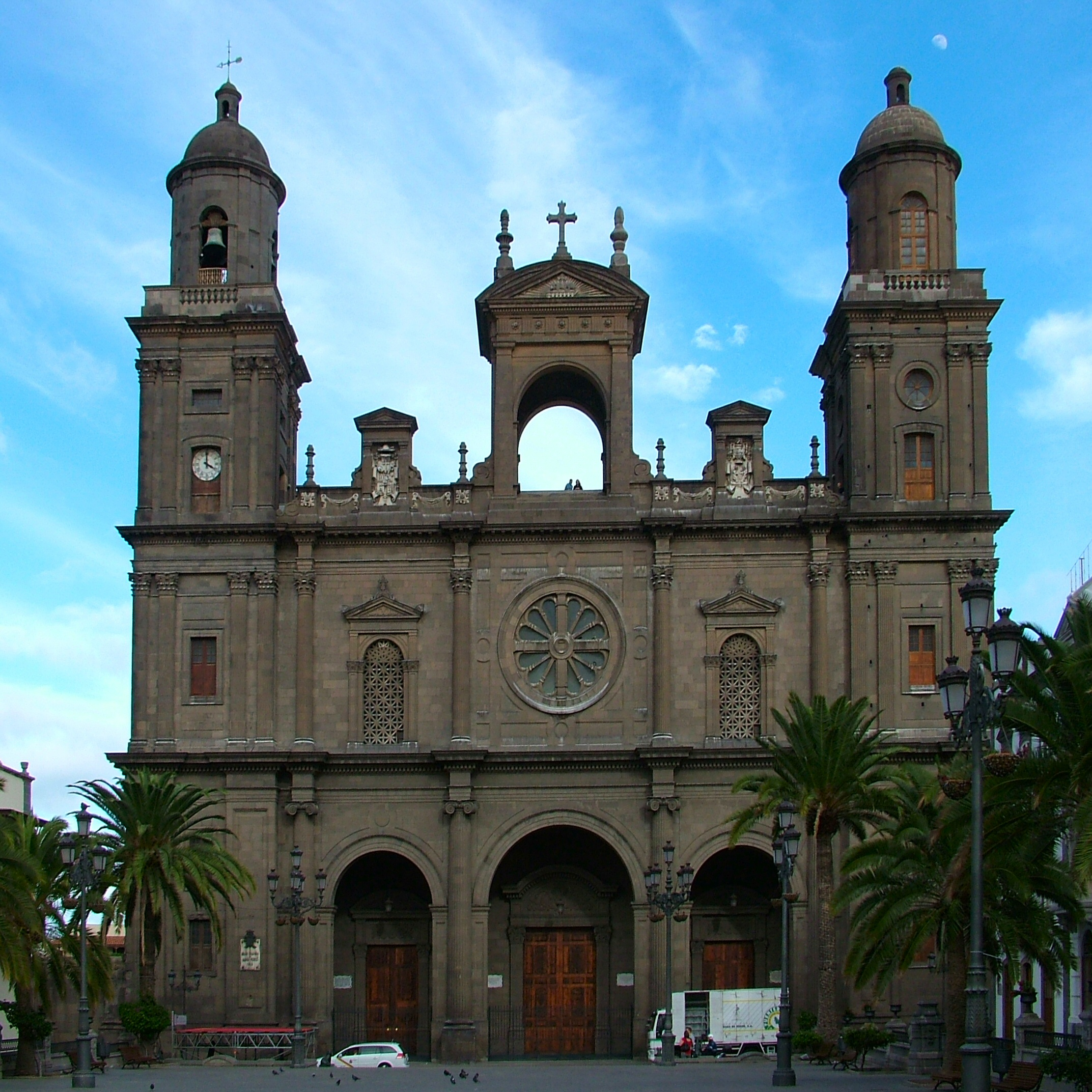 Cathedral of Santa Ana, Cathedral of the Canary Islands in Las Palmas, Gran Canaria.